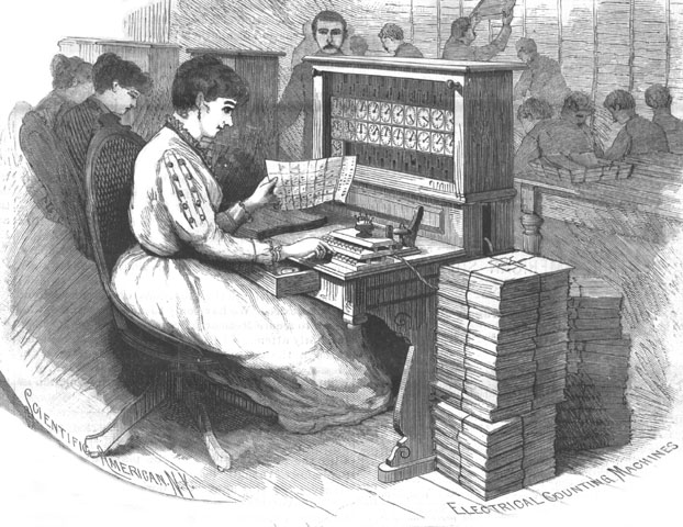 The Hollerith electric tabulating machine being used for the 1890 U.S. A. Census.